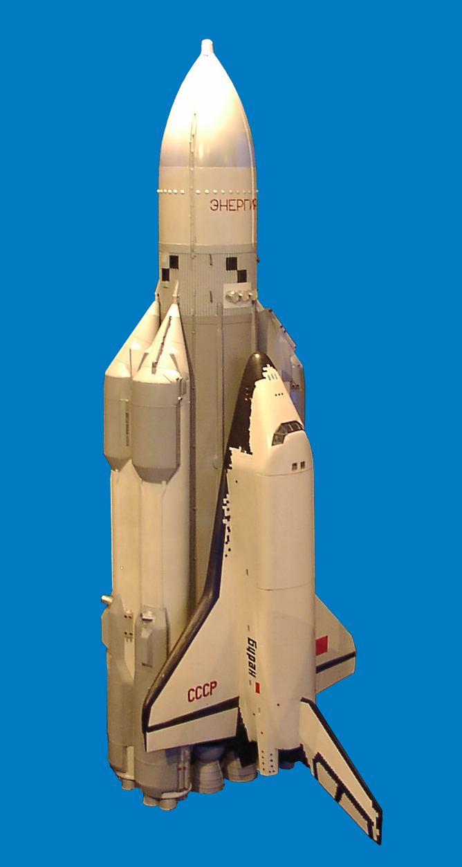 Model of the Energia rocket with Buran shuttle. Photographed at the "Russia in Space" exhibition at the Frankfurt airport in Germany.